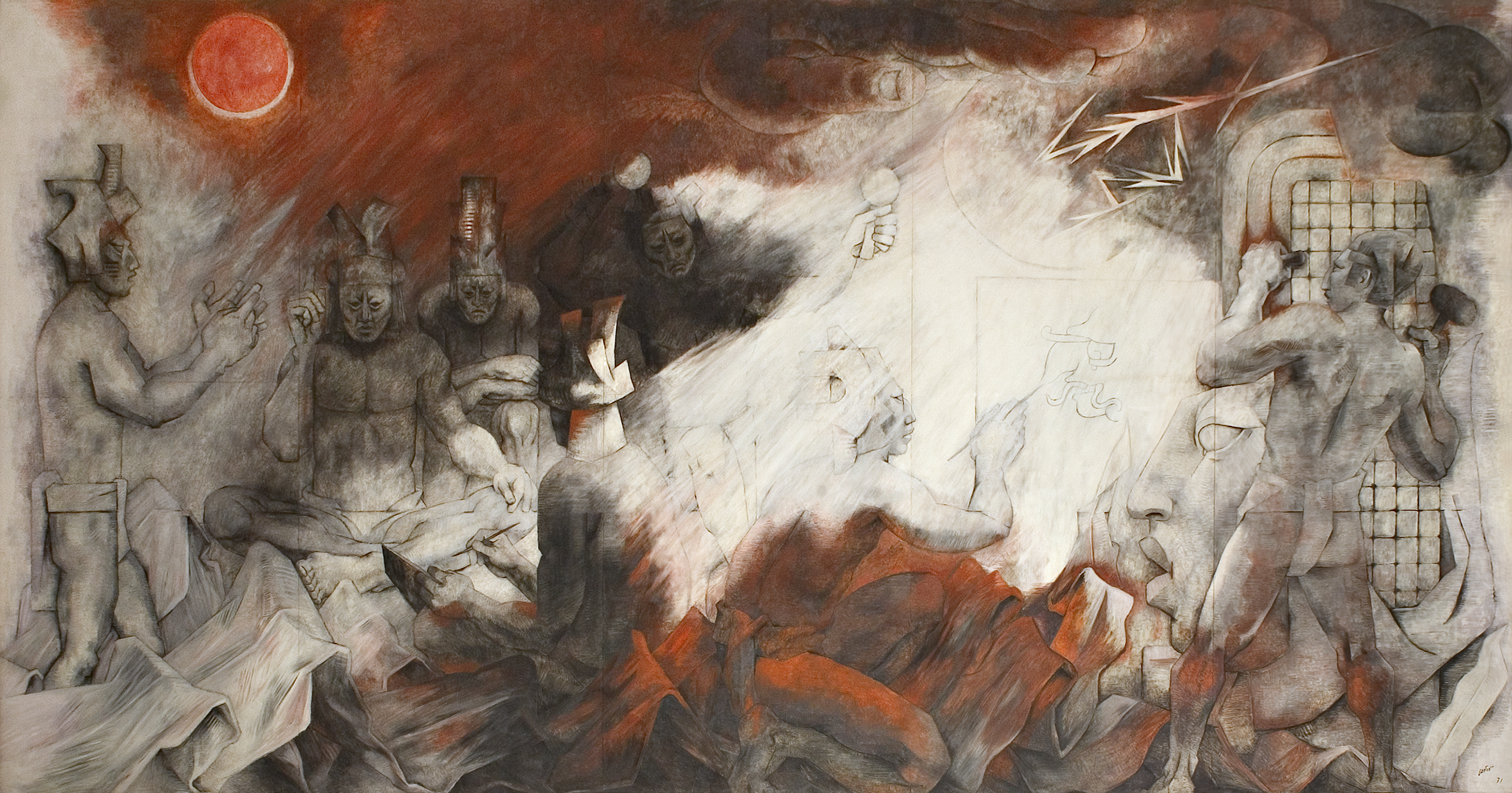 Popol Vuh, Oriente